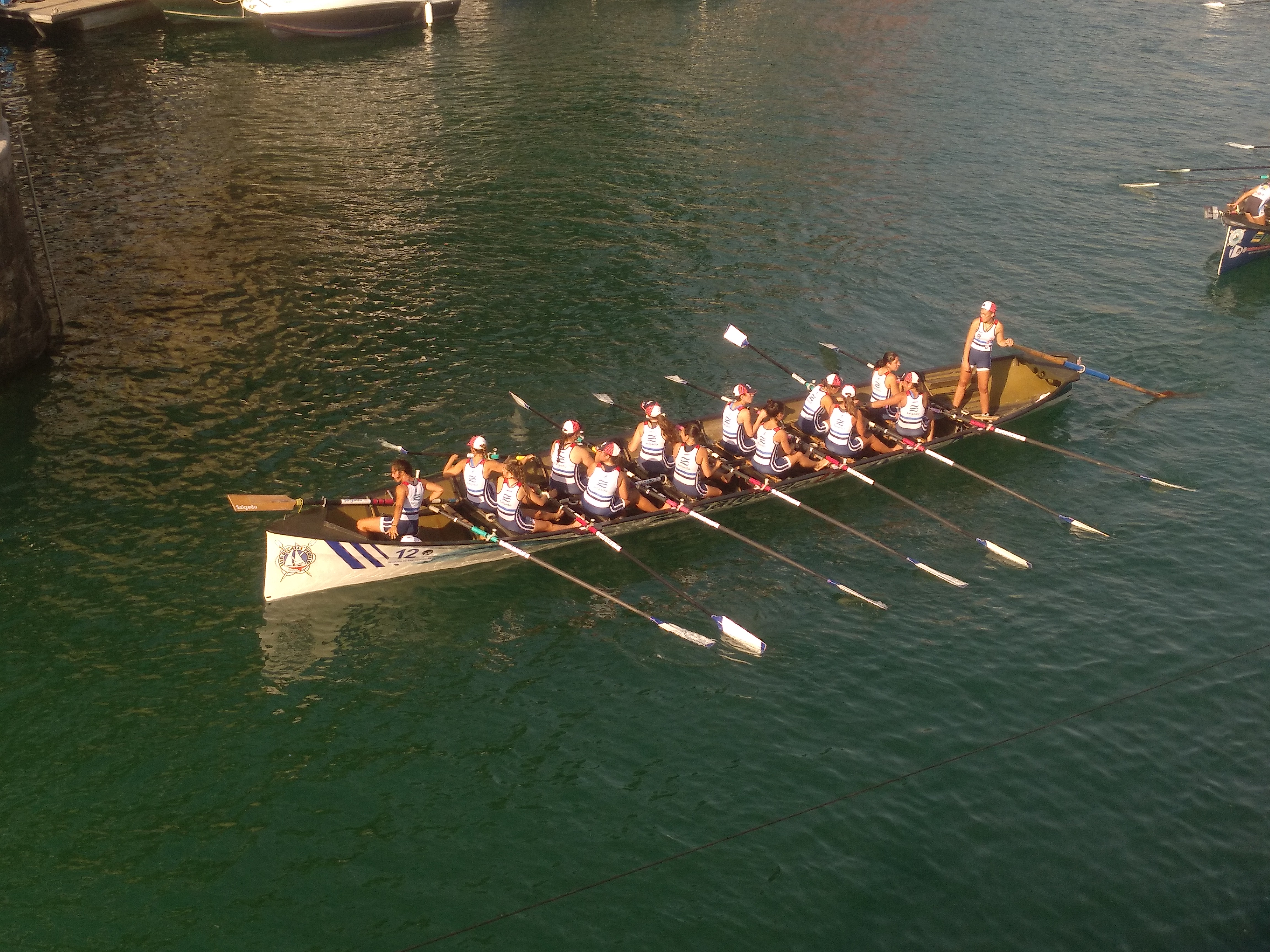 Club de Regatas Perillo, Flag of La Concha, 2018